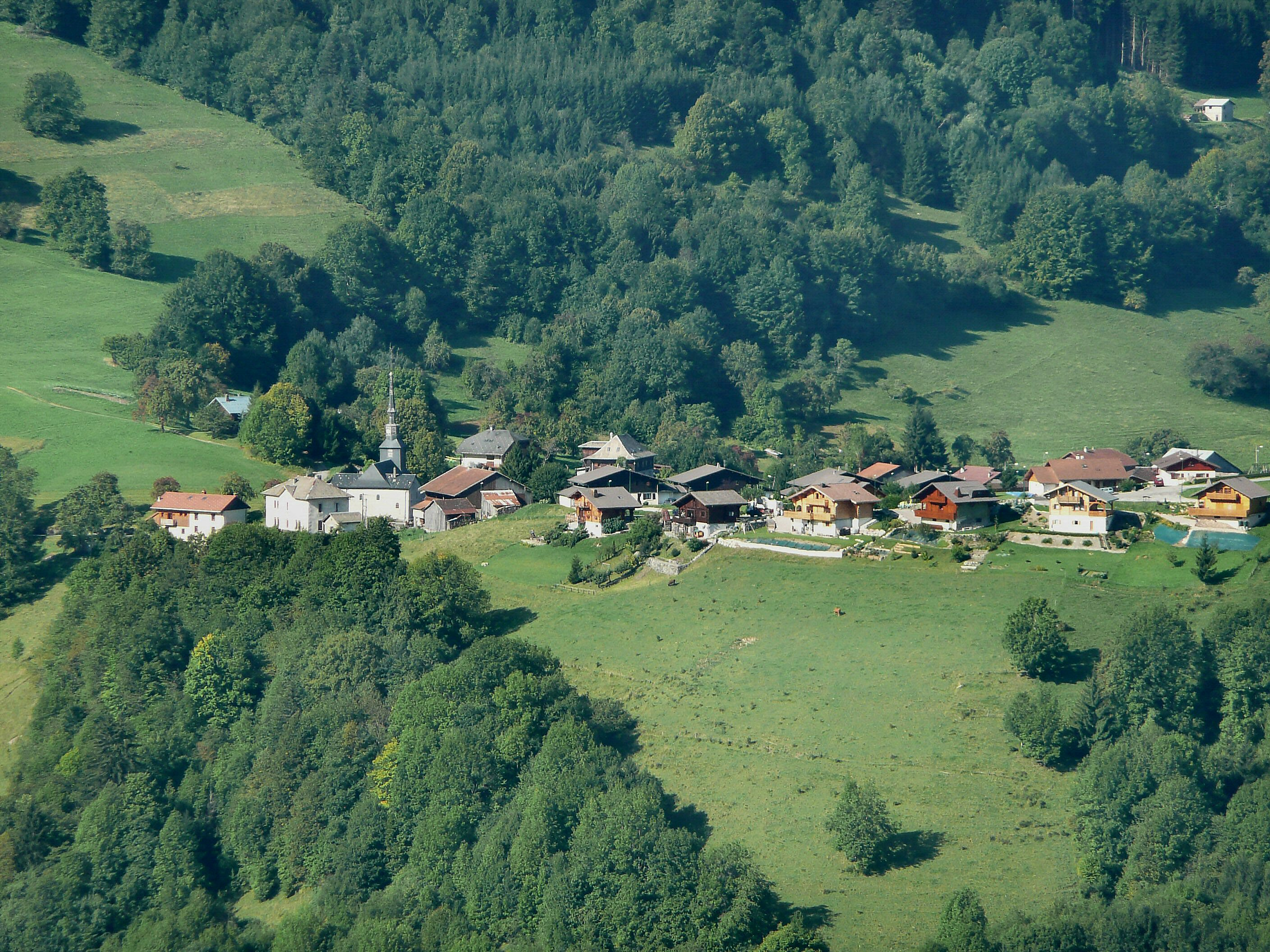 View of La Vernaz since the hamlet Rosset (municipality of La Forclaz)